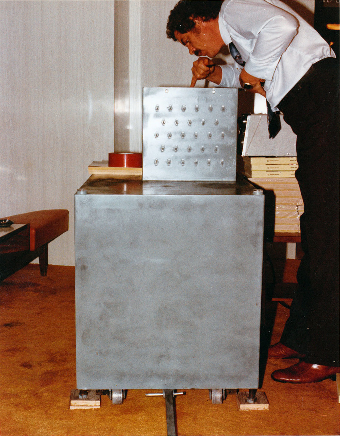 Bomb containing around 1,000 pounds (450 kg) of dynamite at Harvey's Resort Hotel in Stateline, Nevada, United States on August 26, 1980, being examined by Nevada State Fire Marshal Thomas J. Huddleston.